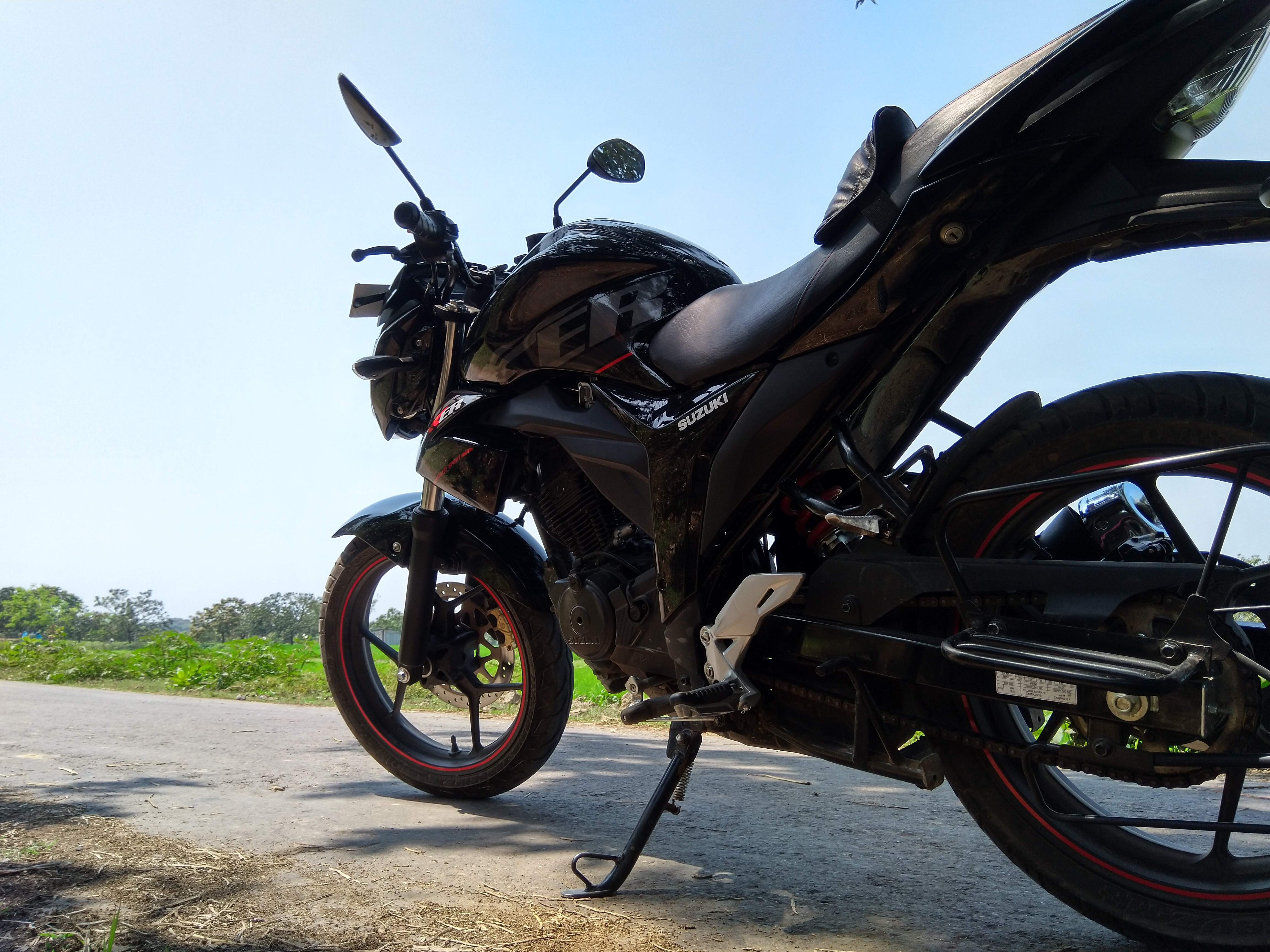 The most popular Gixxer bike from Suzuki.